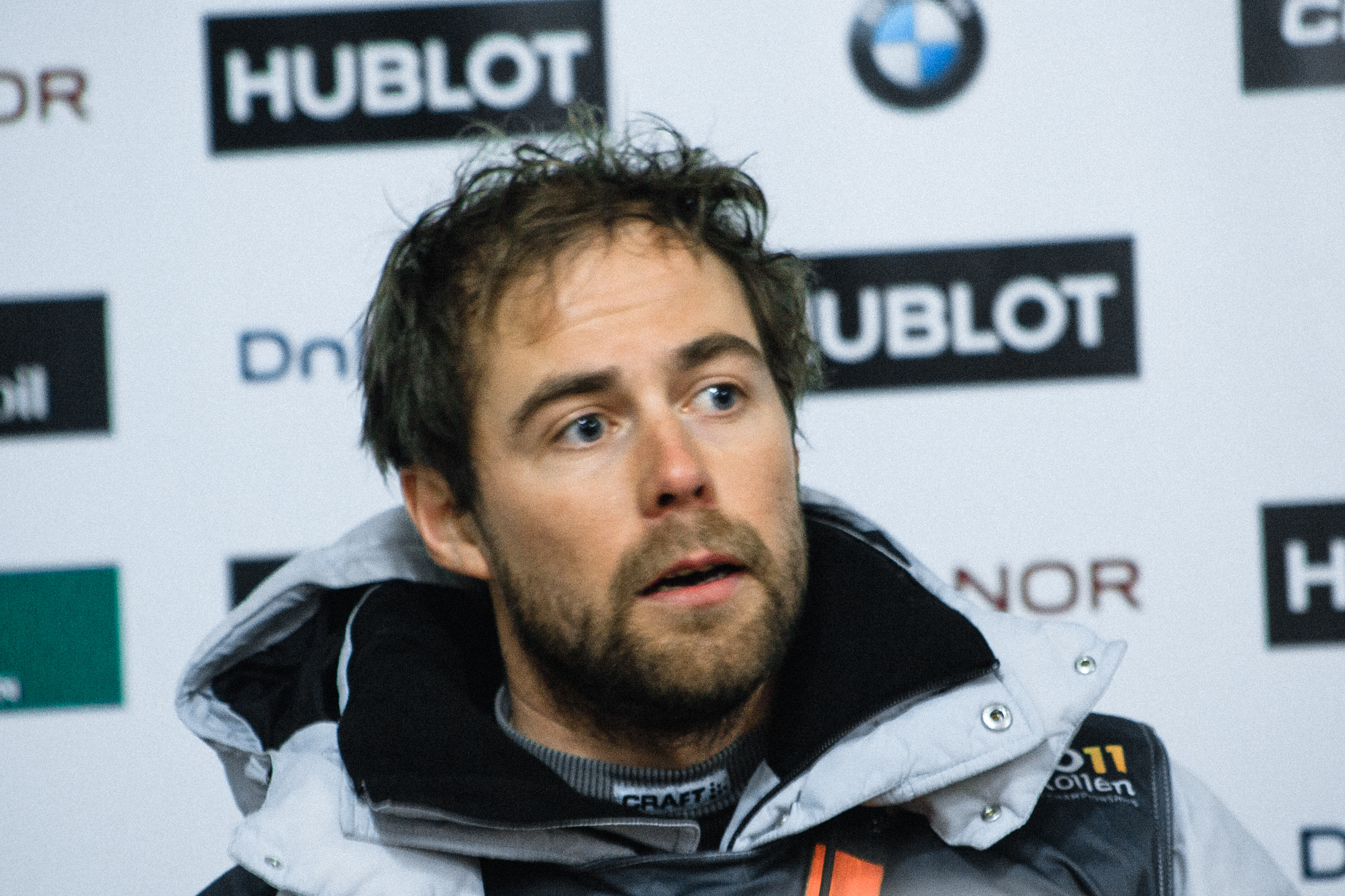 Head coach of the Swedish national cross-country ski team; Rikard Grip at the 2011 FIS Nordic World Ski Championships in Oslo, Norway. Grip took over as head coach from Lars Öberg in April 2013.